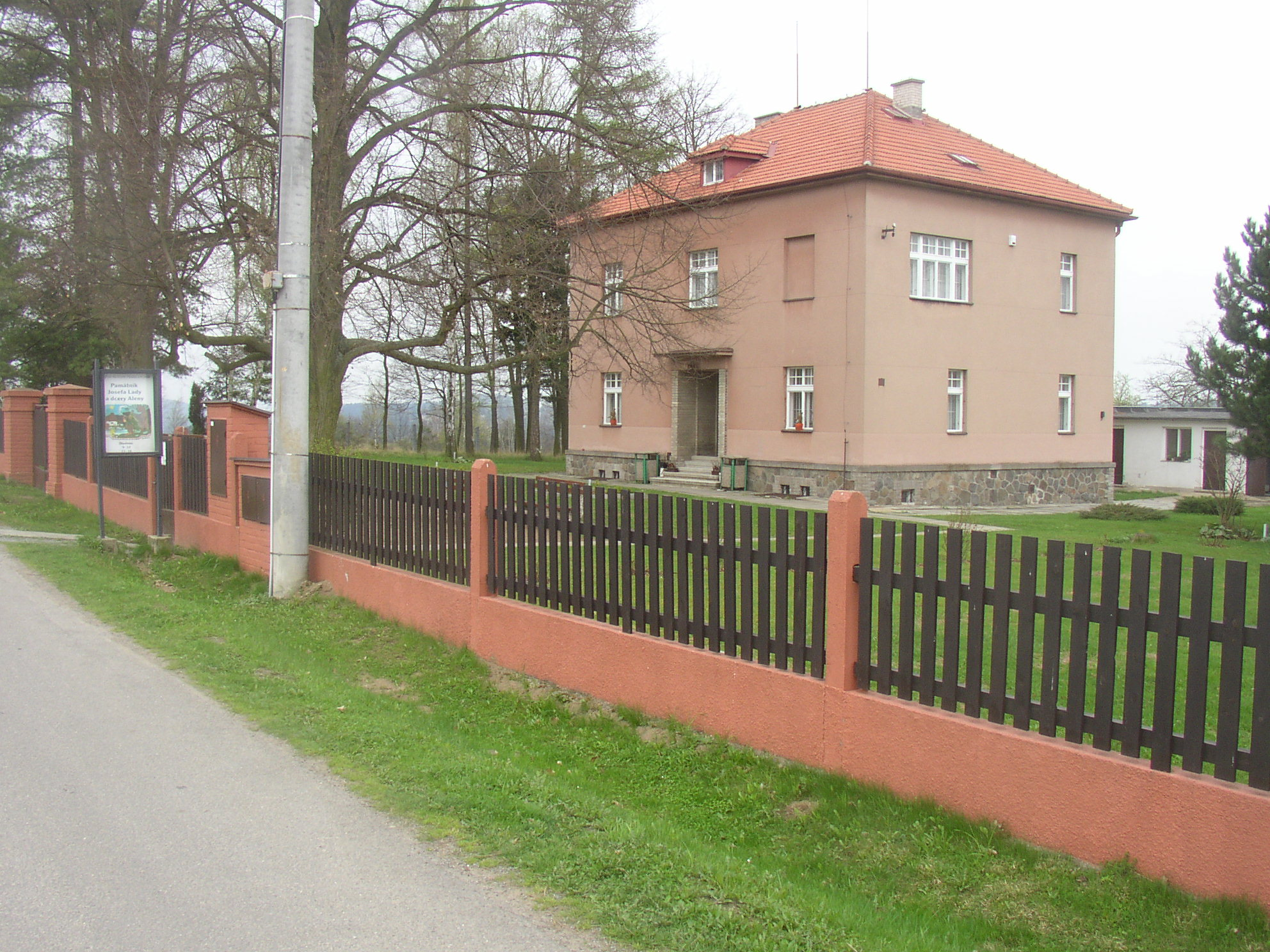 Hrusice, Prague-East District, Czech Republic. Summer villa of Czech painter and writer Josef Lada on southern end of the village today houses his museum.